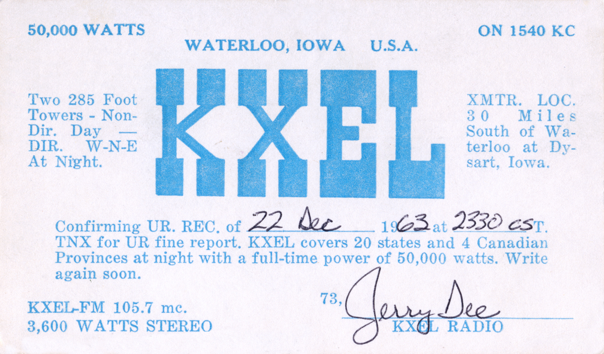 QSL card from AM broadcaster KXEL in Waterloo, Iowa.